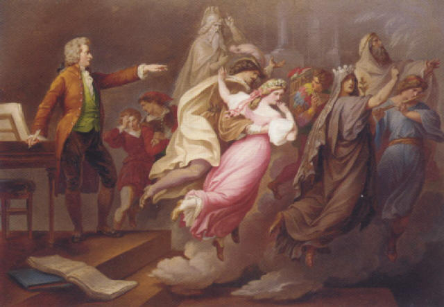 Mozart directing imaginary actors from the operas Don Giovanni and The Magic Flute.